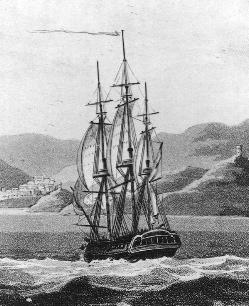 U.S. Frigate Philadelphia (1800-1803) entering the Tripoli harbor, where two British ships-of-the-line lie at anchor.